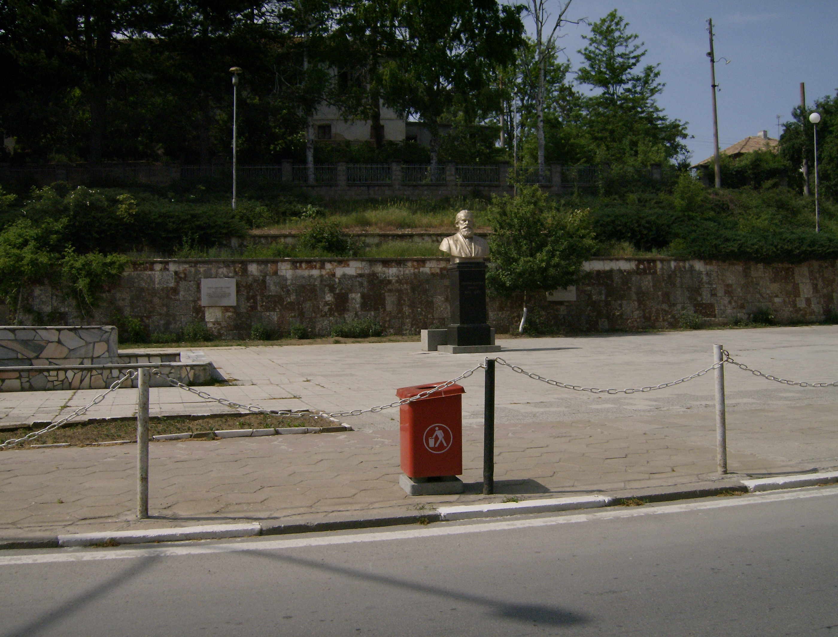 Blagoevo